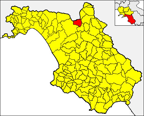 Locator map of the municipality of Oliveto Citra (red) within the Province of Salerno